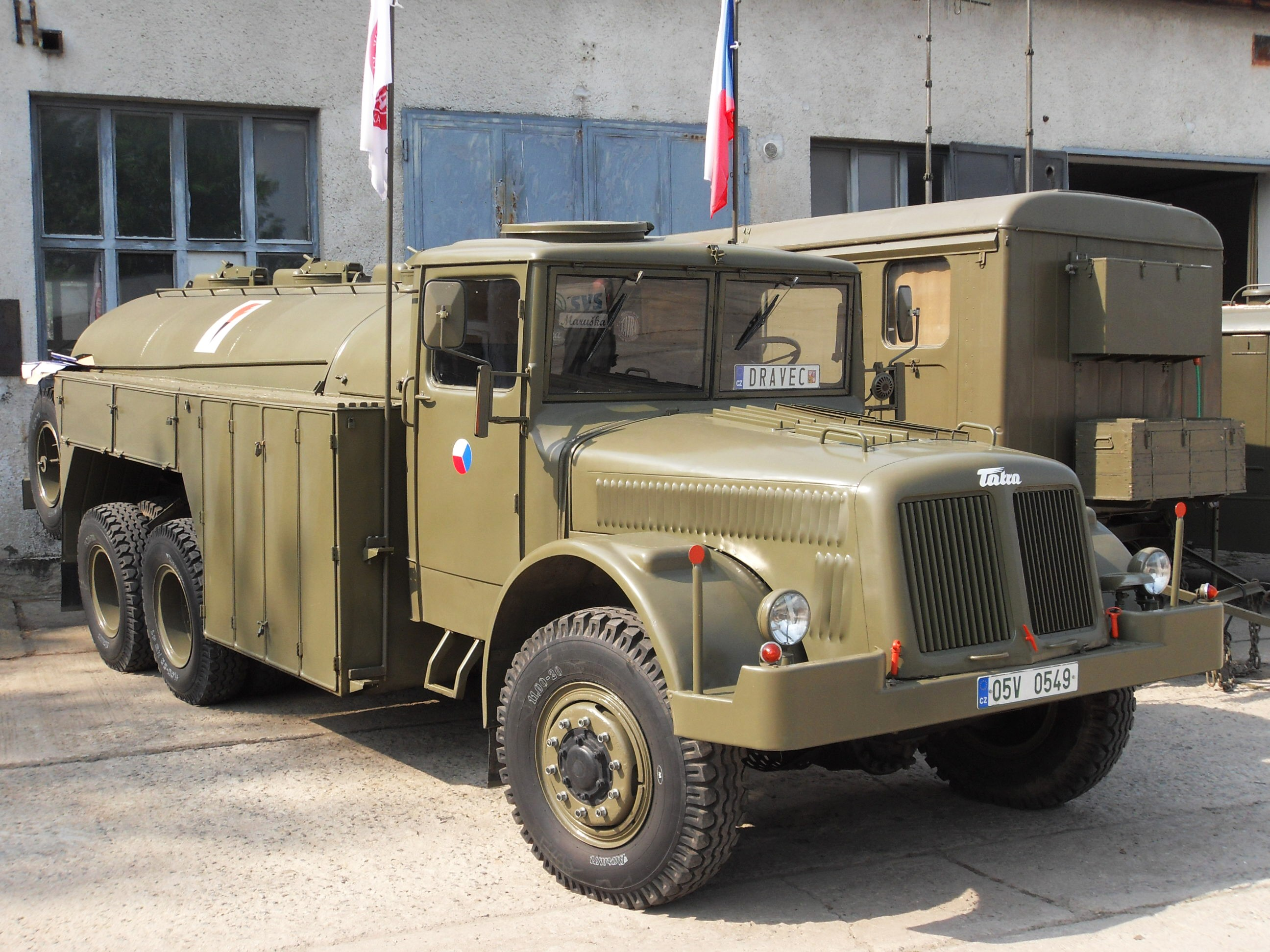 Tatra 111 C truck, depository of Technical Museum in Brno, Czech Republic